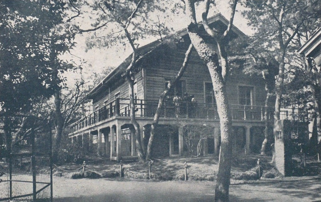 The residence of Nogi Maresuke, 1930s. Reference as Dai-tokyo Shashincho, p.21, published by Tokyo : Shobido, 1930.